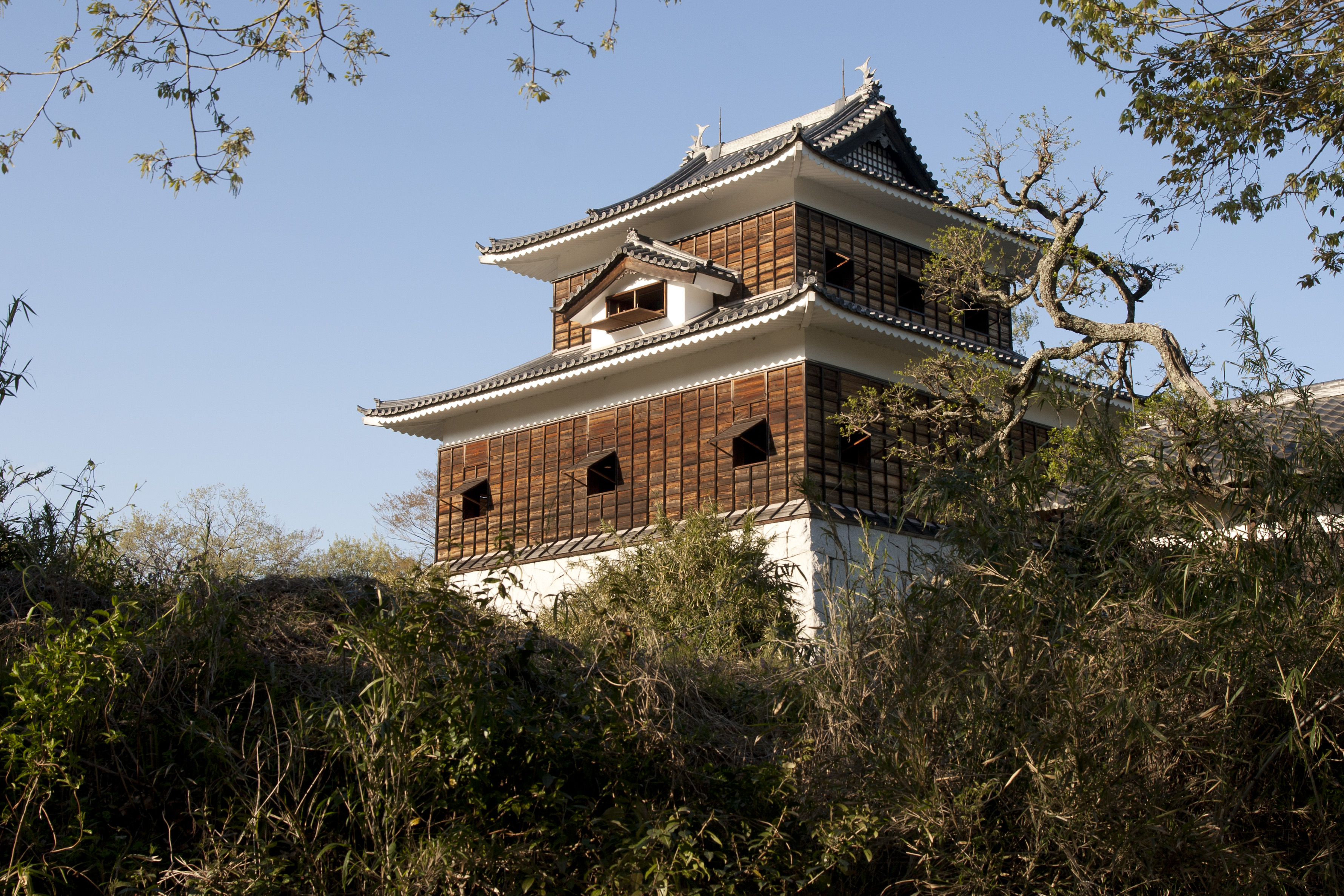 Yamagata Castle in Hitachiomiya City, Ibaraki Pref., Japan